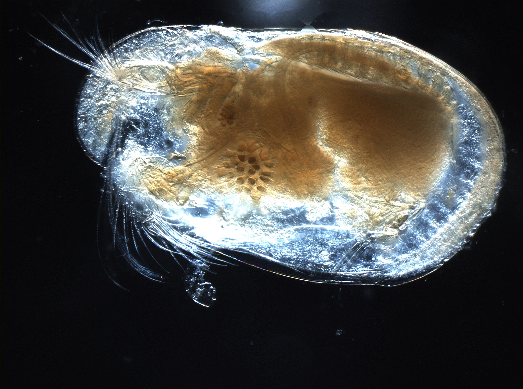 Author: Anna Syme